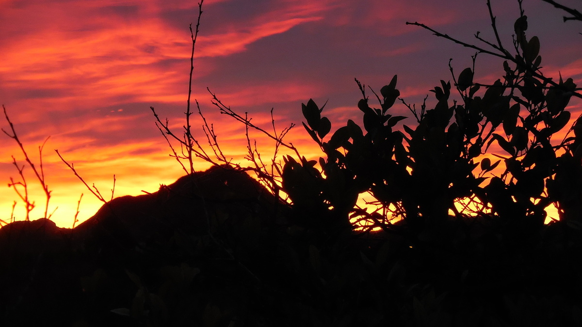 Sun of Murcia